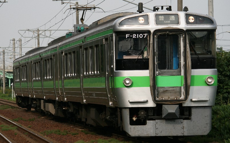 Hokkaido-Railway Train Series721-F2107